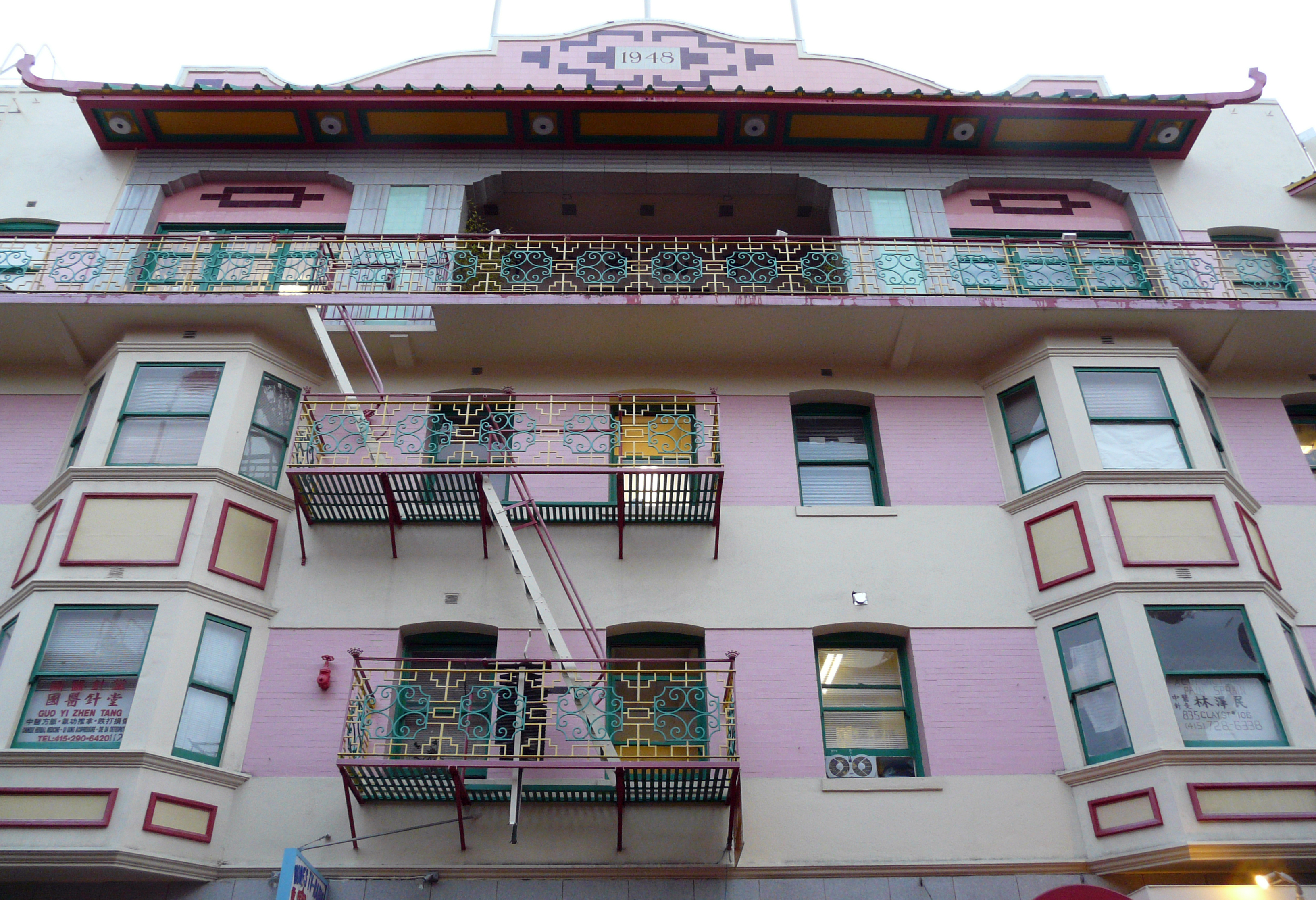 P1110886 Waverly at Clay